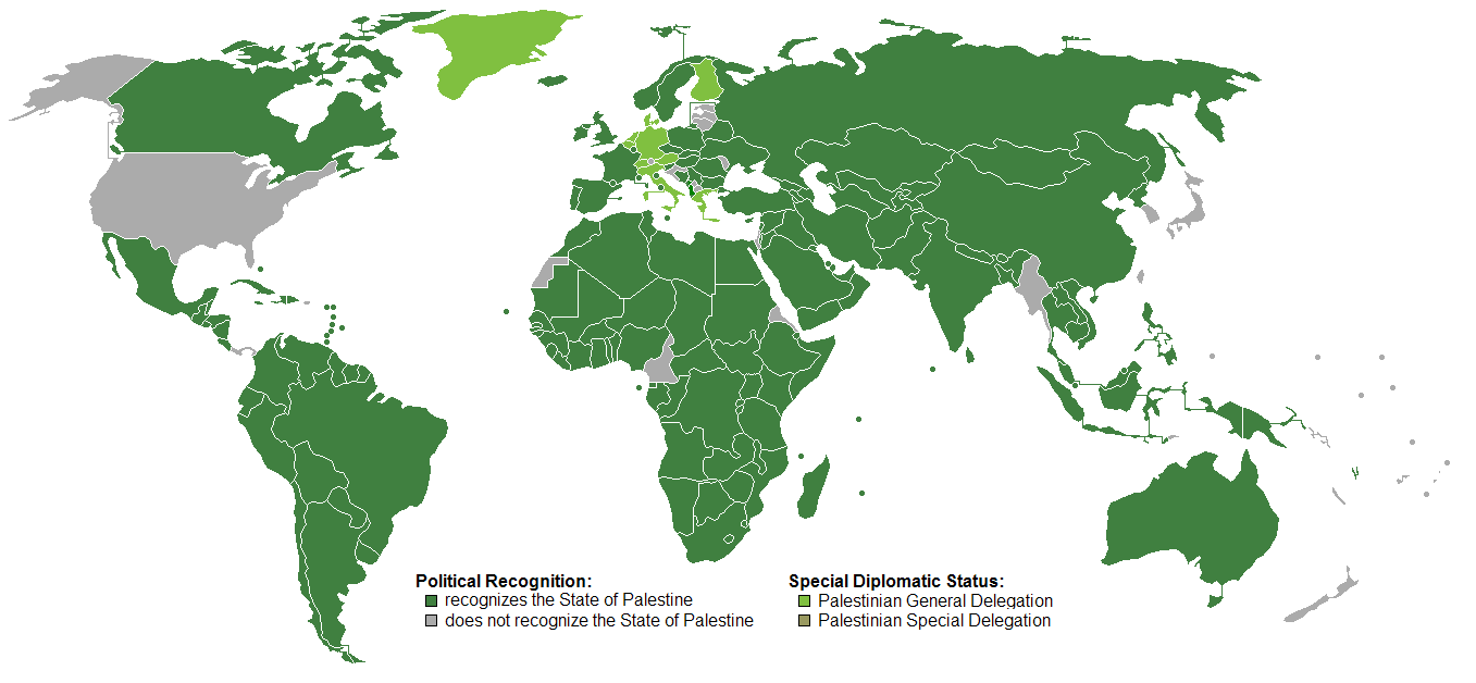 World map colored to show which nations have recognized the State of Palestine, or have special diplomatic arrangements with the State of Palestine.